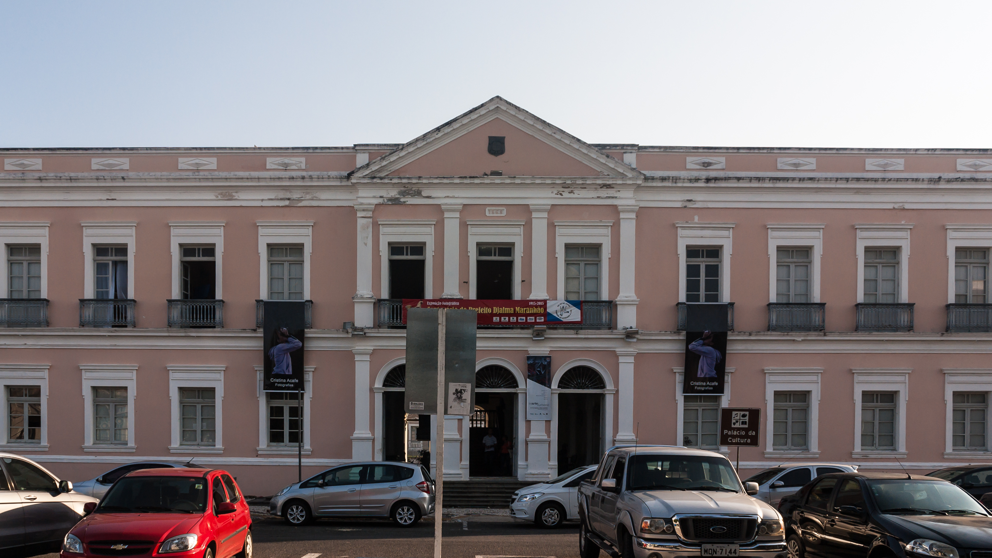 Palácio Potengi, Natal